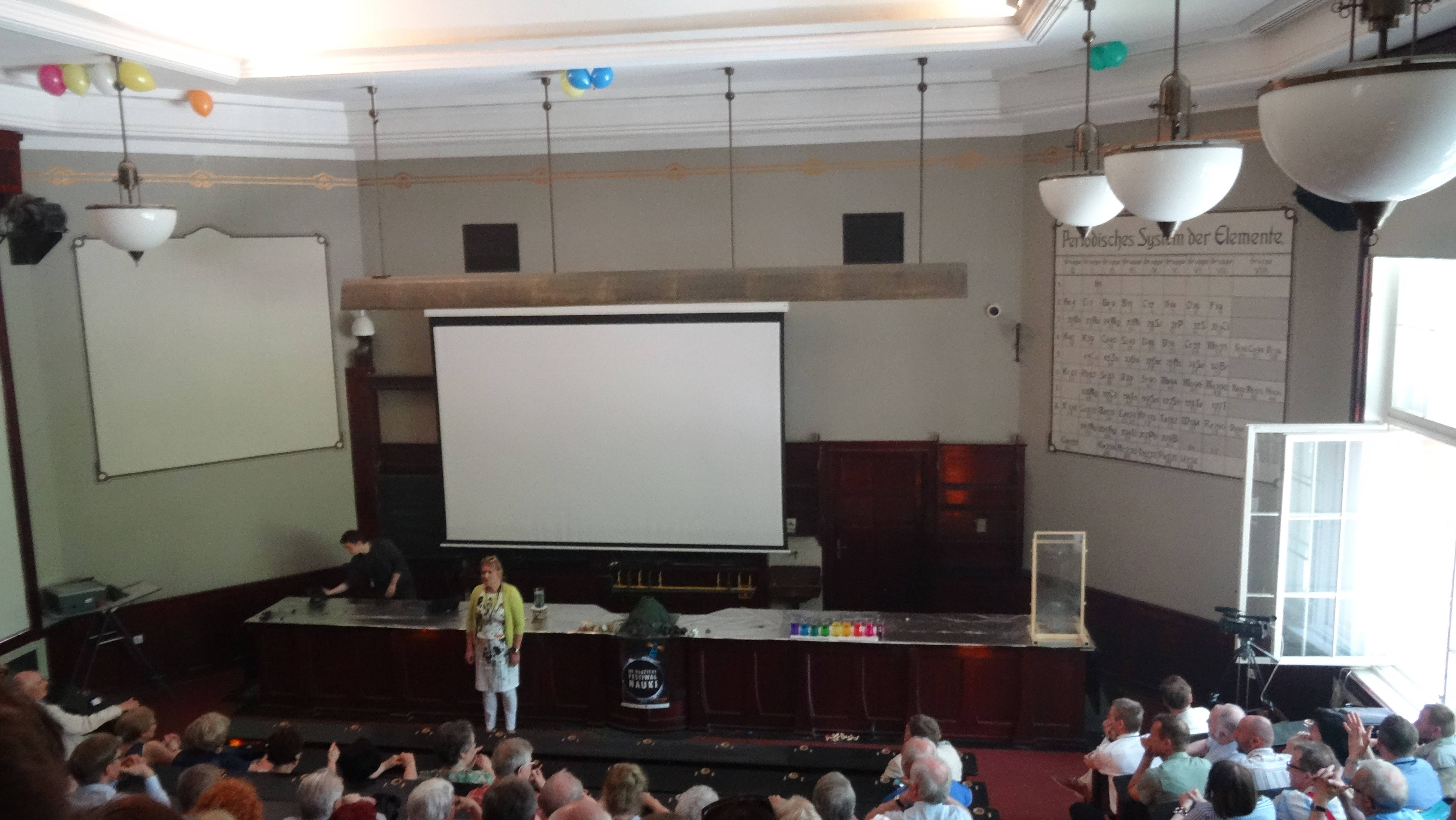 Auditorium (built and arranged in 1904) at Chemical Faculty, Gdańsk University of Technology, Poland, 2014. Lecturer: prof. Żaneta Polkowska